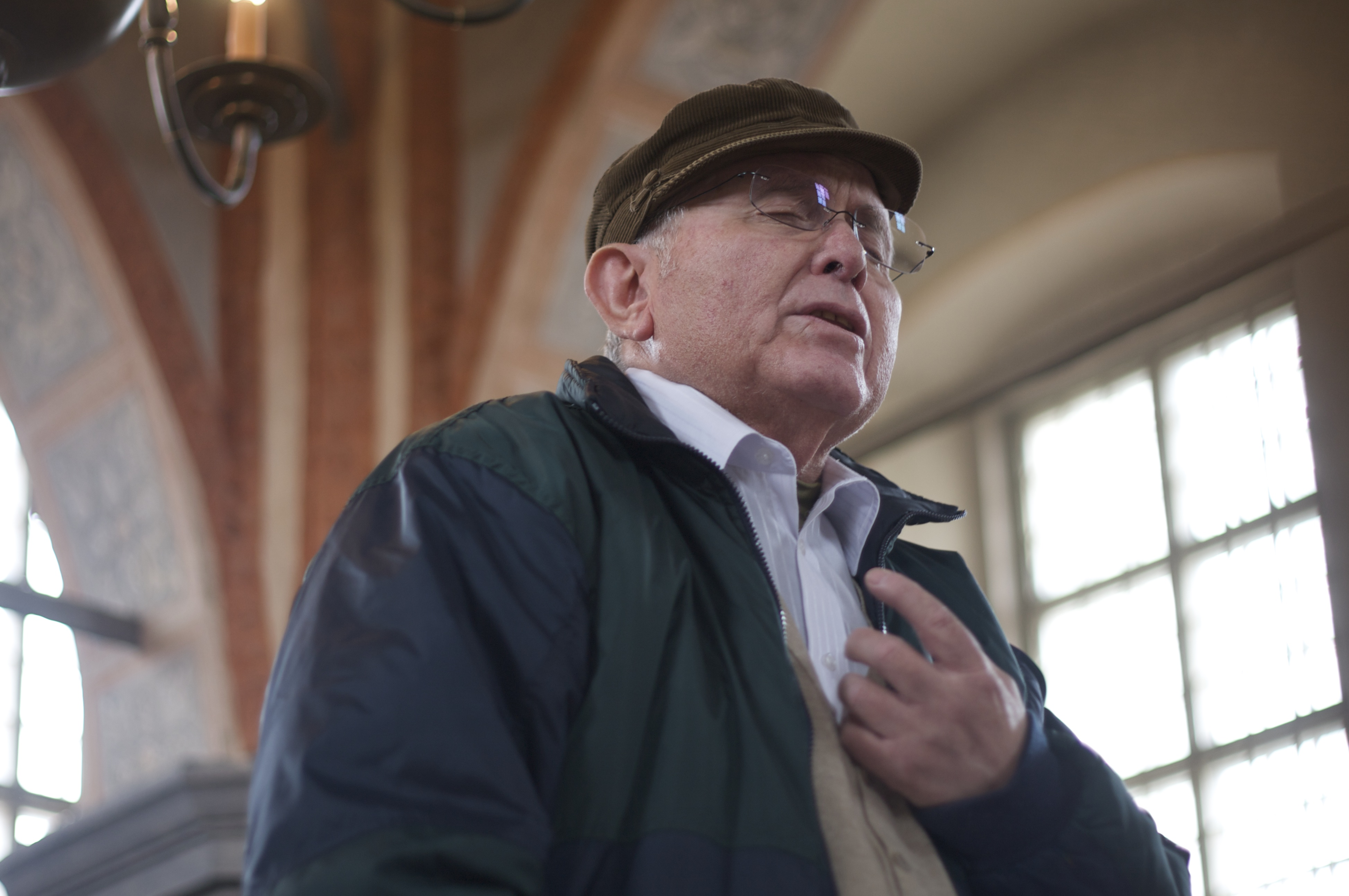 Holocaust Survivor Pinchas Gutter in Tykochen Synagogue